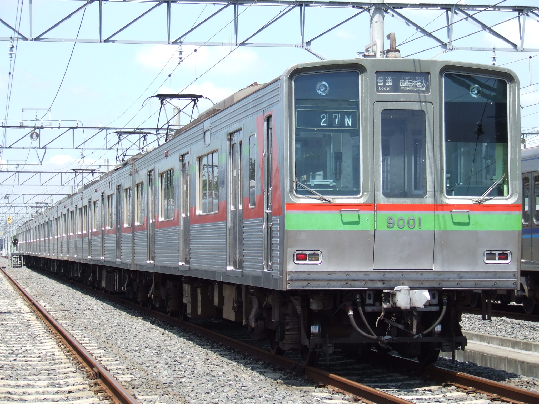 Chiba New Town Railway 9000 series EMU set 9008 at the Hokuso Railway Inba Depot in Chiba Prefecture, japan